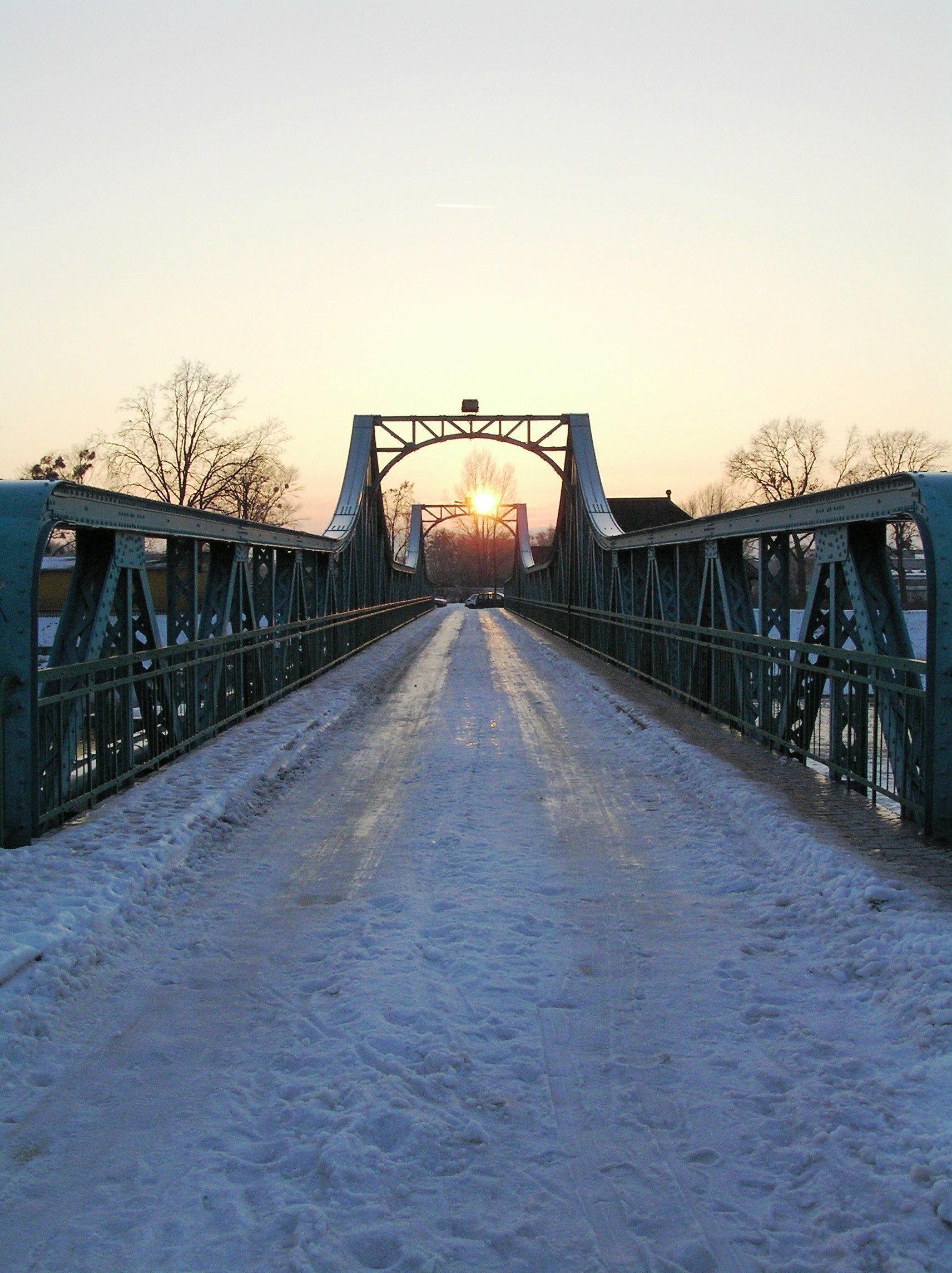 Bartoszowicki Bridge in winter, Wrocław, Poland